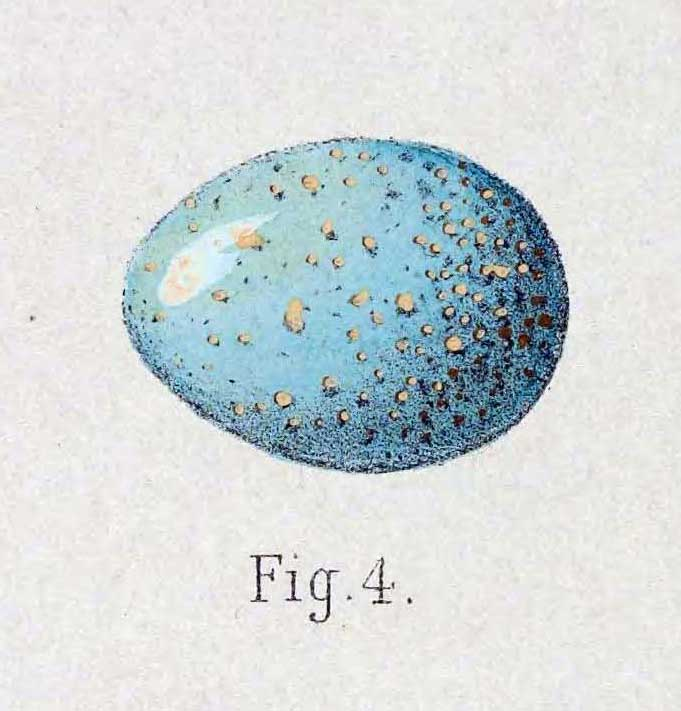 « Saxicola montana » = Oenanthe deserti oreophila (Subspecies of Desert Wheatear) - egg